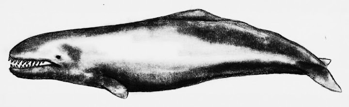 Livyathan, a giant physeteroid from the miocene of Peru